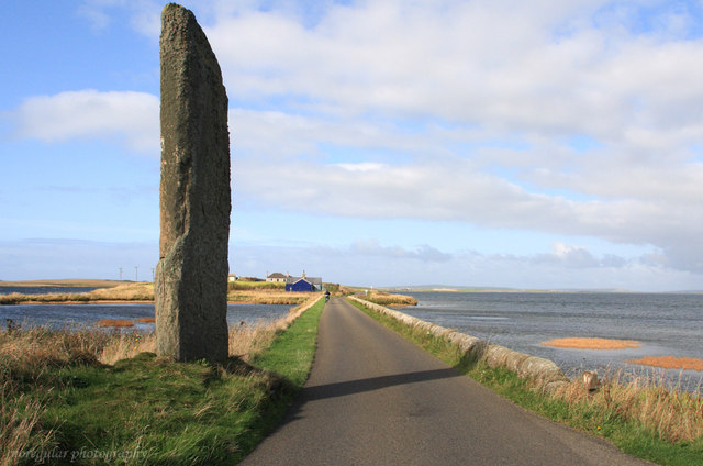 The Watch Stone, Stenness, Orkney A view of the Watch Stone looking along the bridge of Brodgar and the road leading to the "Ring of Brodgar" The Watch Stone is believed to be one of a pair of stones which once stood at this point forming a gateway between the Stenness stone ring and that of the Ring of Brodgar.